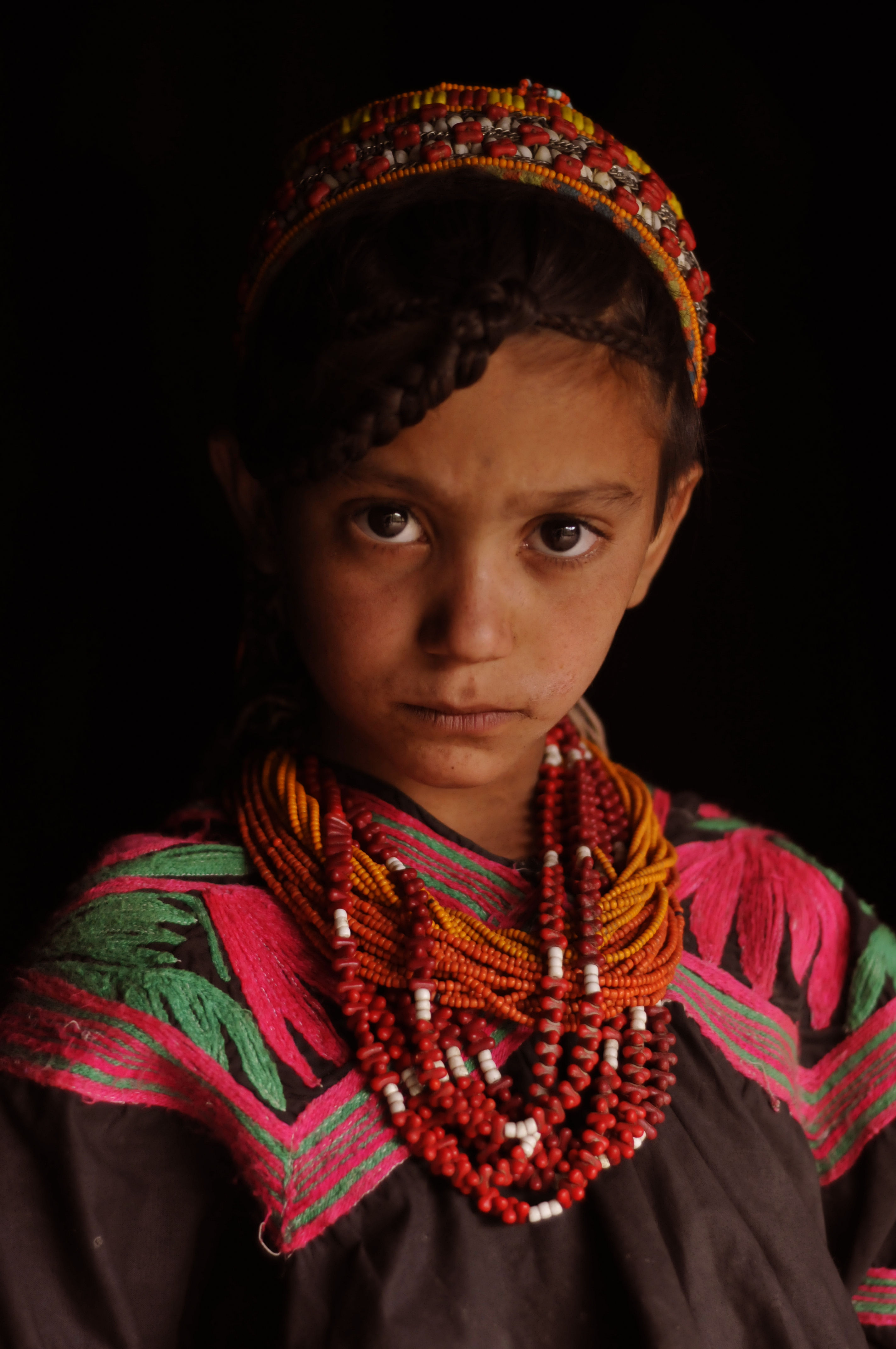 'Kalash girl in traditional clothing' (Kalash people live in the Kalash Valleys in Chitral, Khyber-Pakhtunkhwa, Pakistan)